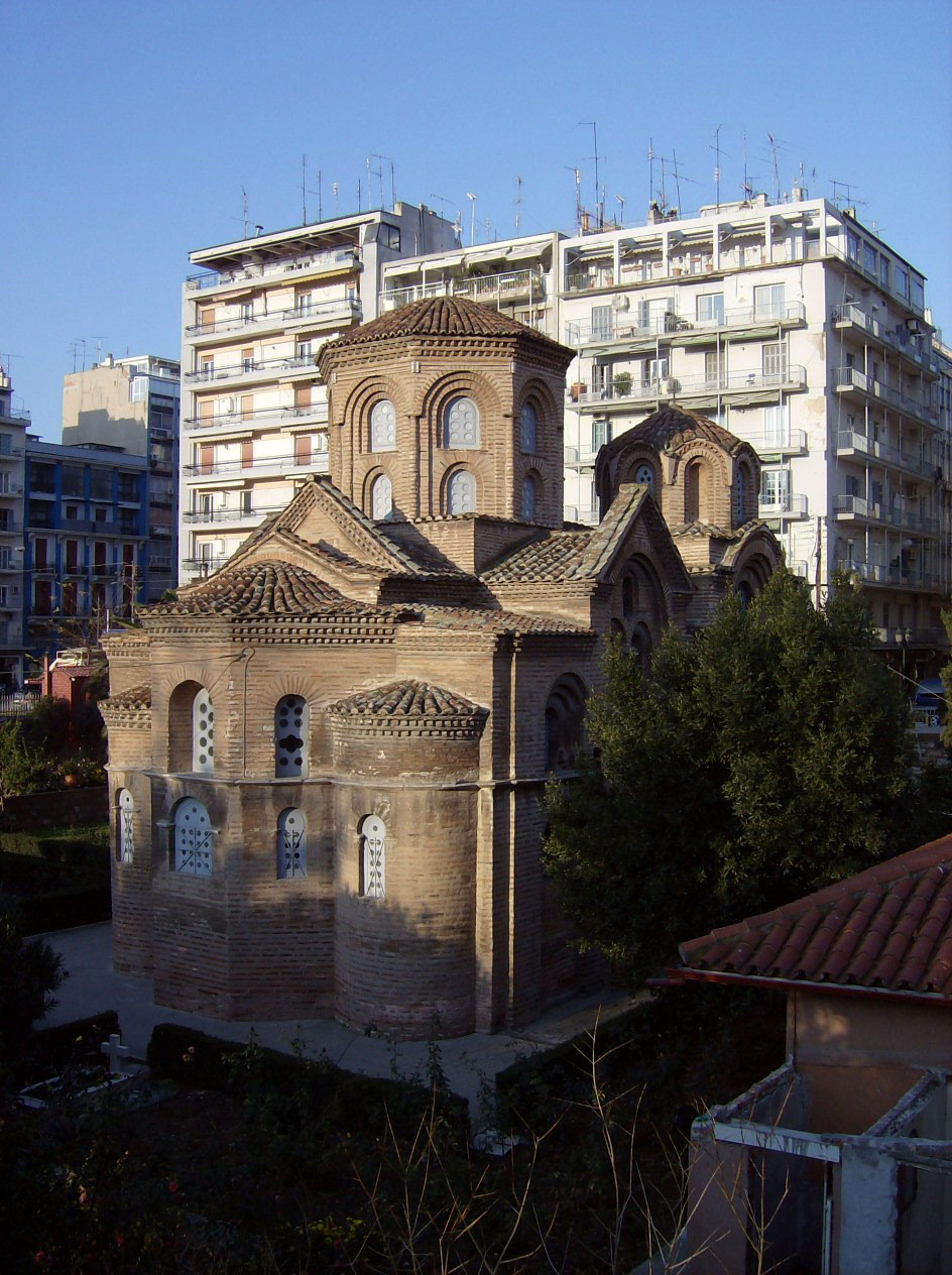 Church of Panagia Chalkeon in Thessaloniki